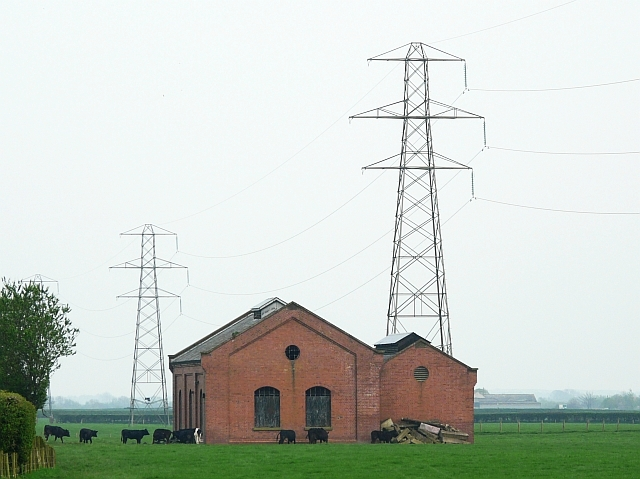 Water pumping station by the River Esk Constructed during World War I to provide water for a huge new munitions factory. The complex of works and housing stretched 9 miles, from Dornock in the west to Mossband near Longtown in the east. The pumping station had three electric pumps, each capable of discharging 5 million gallons of water a day. (Information from the book "Gretna's secret war" by Gordon L.Routledge,1999 - a detailed account of the munitions work.)